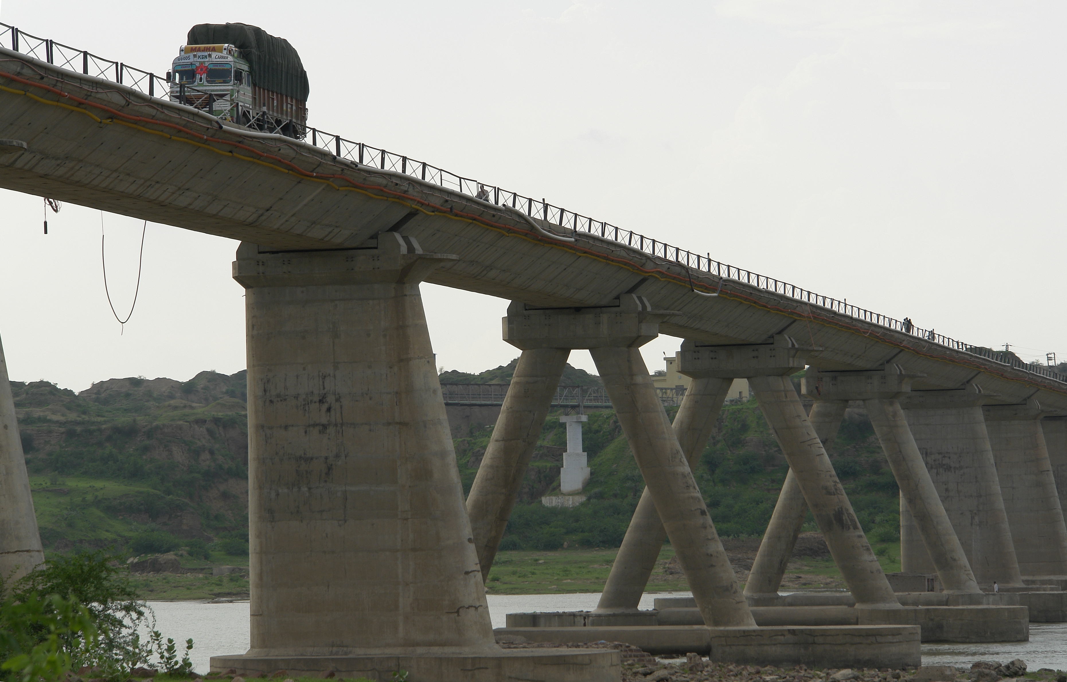 Bridge on Chambel river, Rajasthan / Madhya Pradesh, India (National Highway 3).